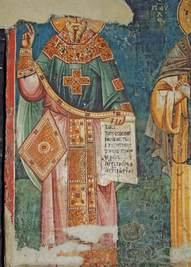 Fresco of St. Theodore Studite, west wall of naos in Church of the Theotokos Peribleptos in Ohrid, Macedonia